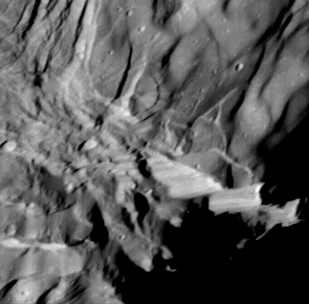 This high-resolution image of Miranda was acquired by Voyager 2 on Jan. 24, 1986, when the spacecraft was 36,250 kilometers (22,500 miles) from the Uranian moon. In this clear-filter, narrow-angle image, Miranda displays a dramatically varied surface. Well shown at this resolution of 660 meters (2,160 feet) are numerous ridges and valleys -- a topography that was probably produced by compressional tectonics. Cutting across the ridges and valleys are many faults. The largest fault scarp, or cliff, is seen below and right of center; it shows grooves probably made by the contact of the fault blocks as they rubbed against each other (leaving what are known as slickensides). Movement of the down-dropped block is shown by the offset of the ridges. The fault may be 5 km (3 mi) high, or higher than the walls of the Grand Canyon on Earth.